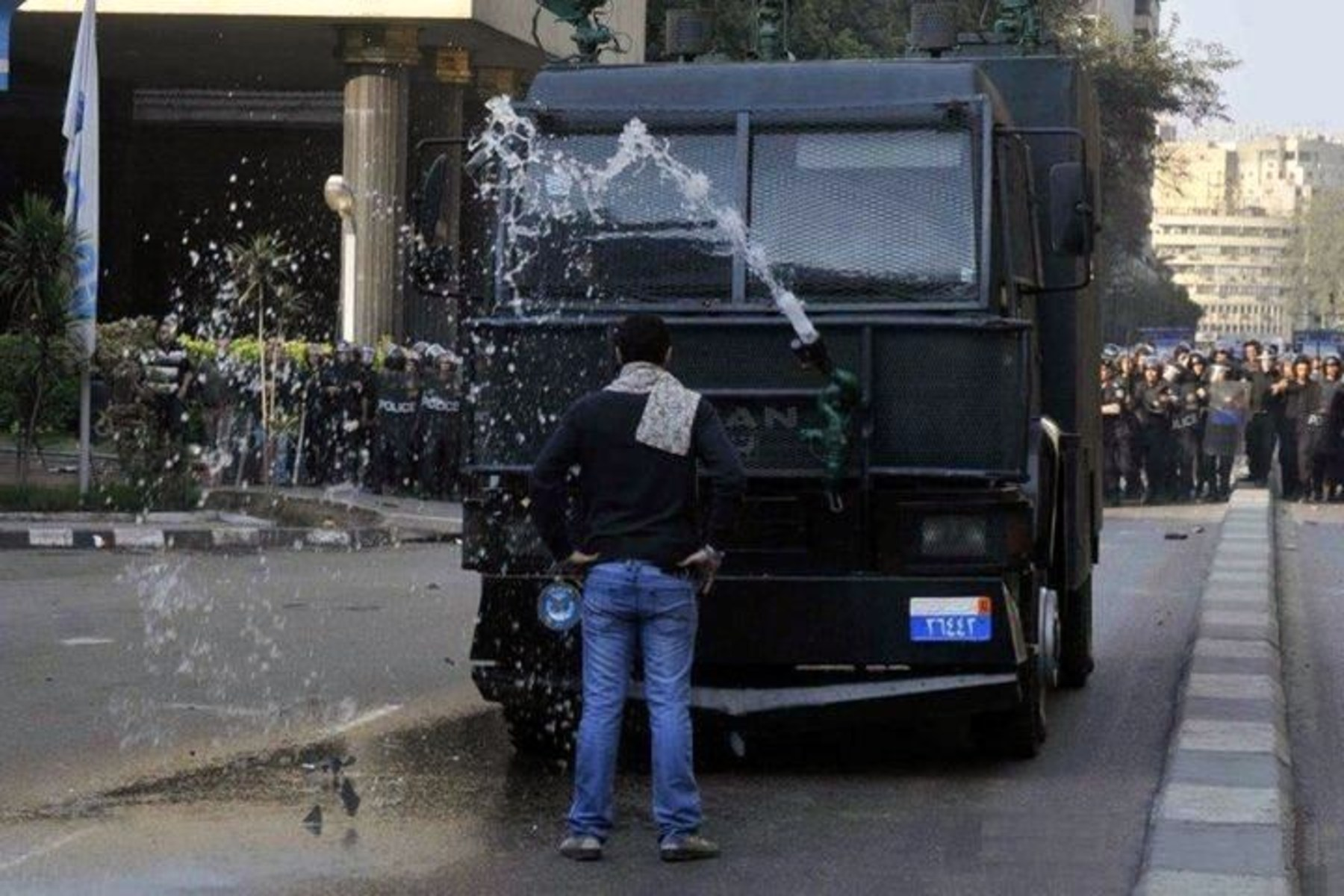 An Egyptian man stands infront of an armored police vehicle, during the protests of January 25th Revolution in Egypt.